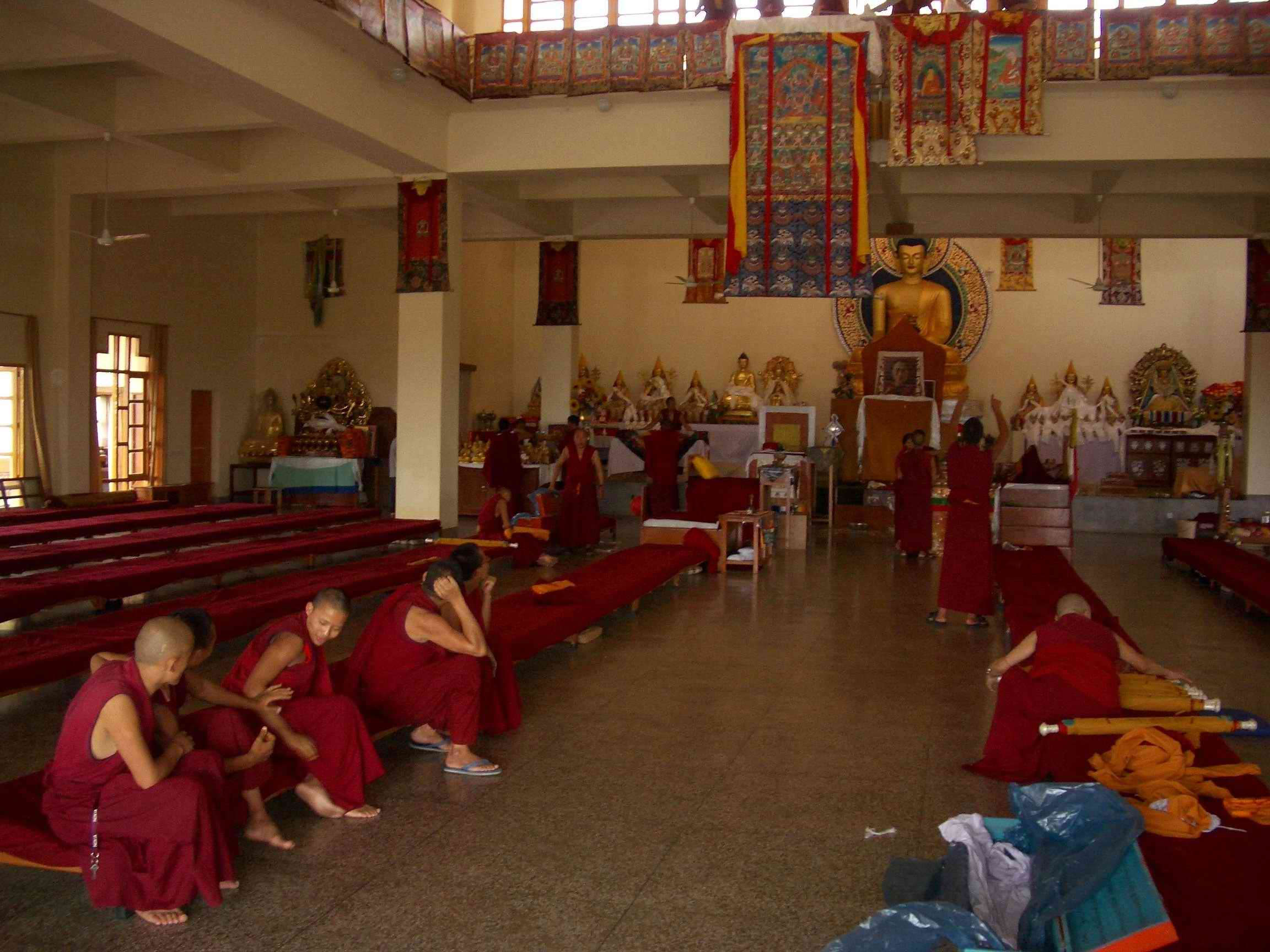 I took this photo when I was visiting the university in 2004.